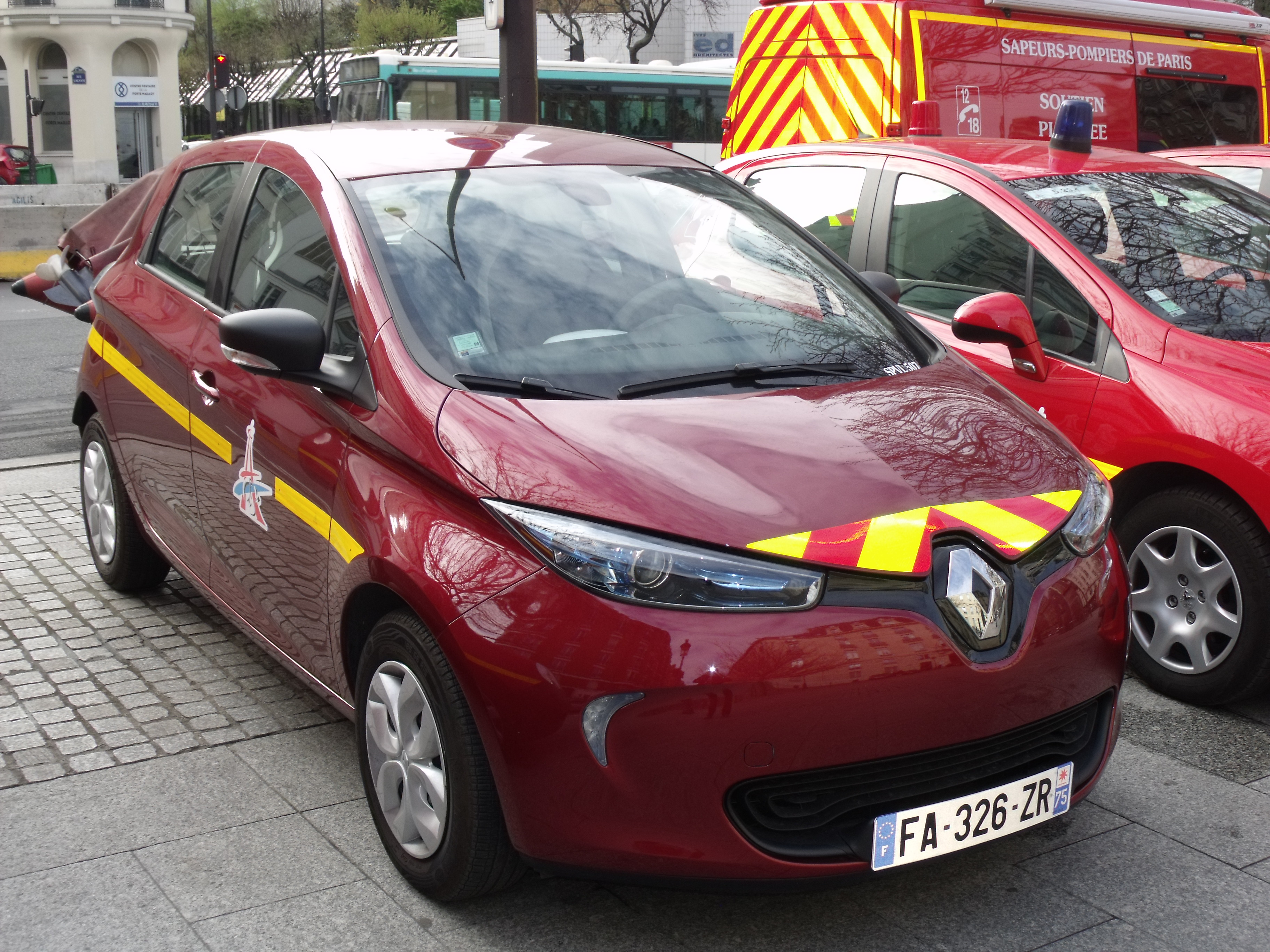 This fire car is for liaisons duties. Seen here on Jules-Renard's place in Paris. It's just front of du Paris Fire Brigade HQ.